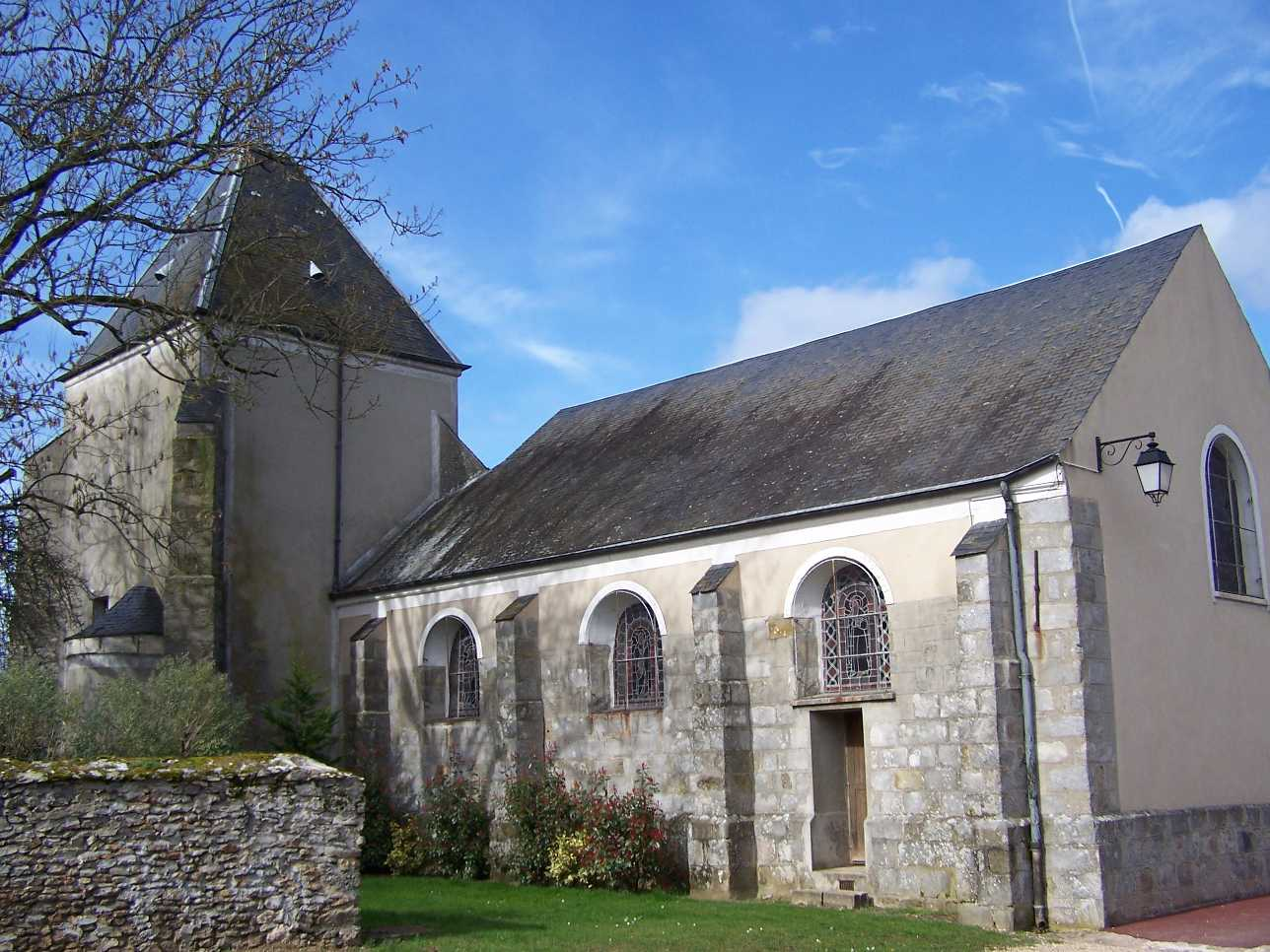 Church of Les Bréviaires (Yvelines, France)